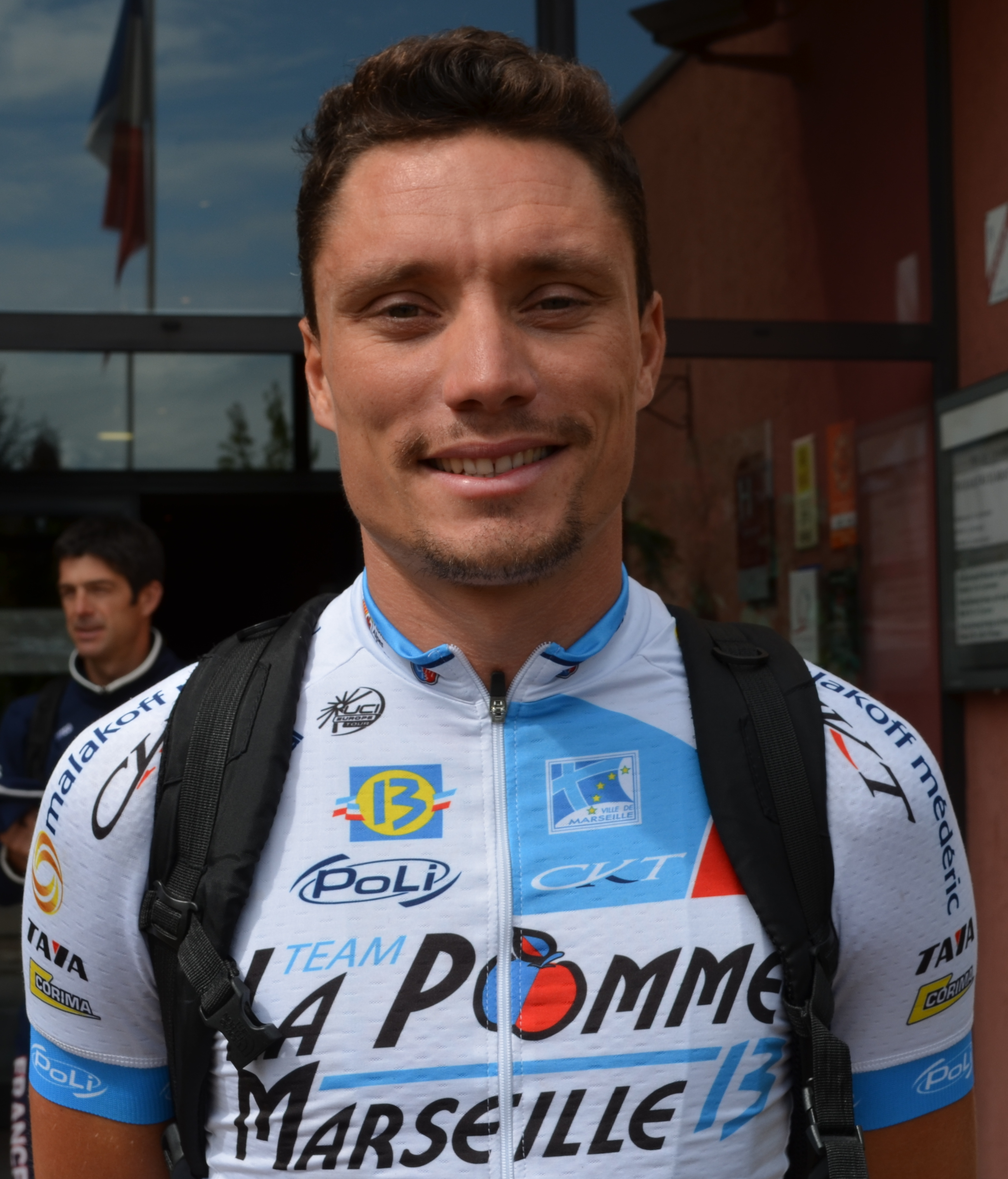 Tour de l'Ain 2014 - Stage 3: hotel before beginning. Benjamin Giraud (La Pomme Marseille 13).